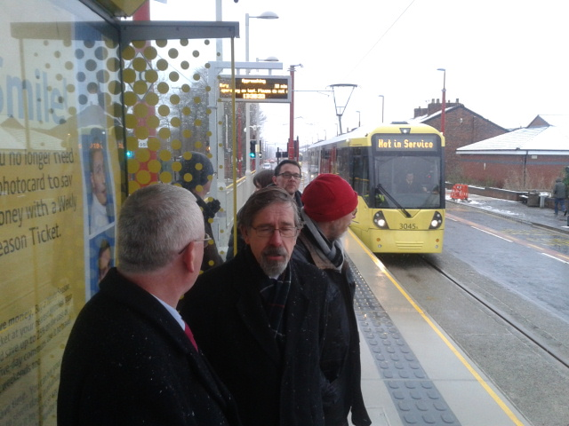 Droylsden Metrolink station shortly before opening (press preview with officials). Pictured are Cllr Kieran Quinn (left, Leader of Tameside Council) and Cllr Andrew Fender (centre, Chairman of Transport for Greater Manchester Committee).